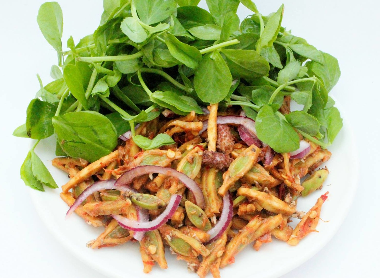 A traditional manipuri cuisine, Singju, with stink bean as its main ingredient and shoots of pea plant as garnished.